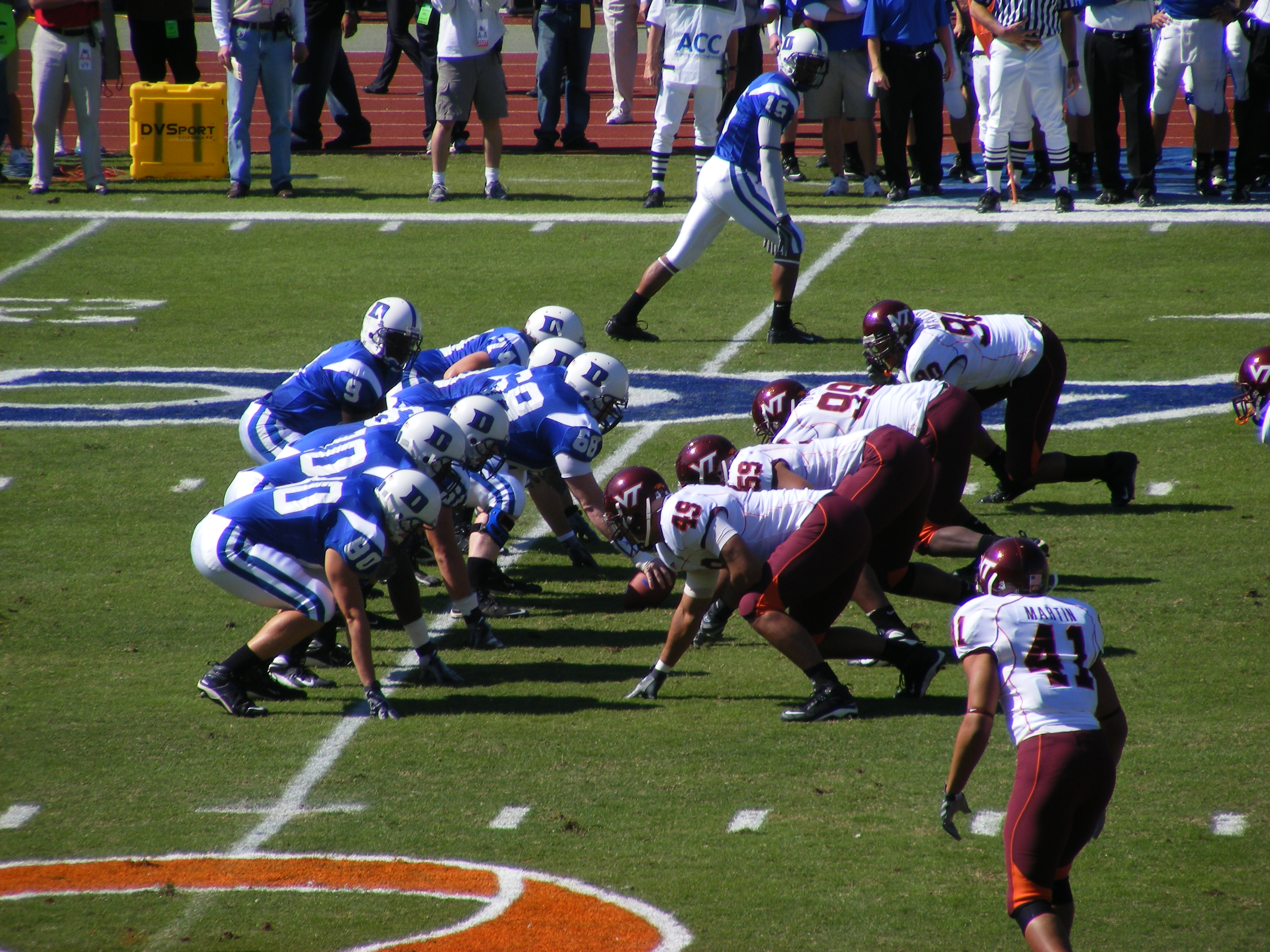 The Duke University Blue Devils at the line of scrimmage against the 2007 Virginia Tech Hokies football team